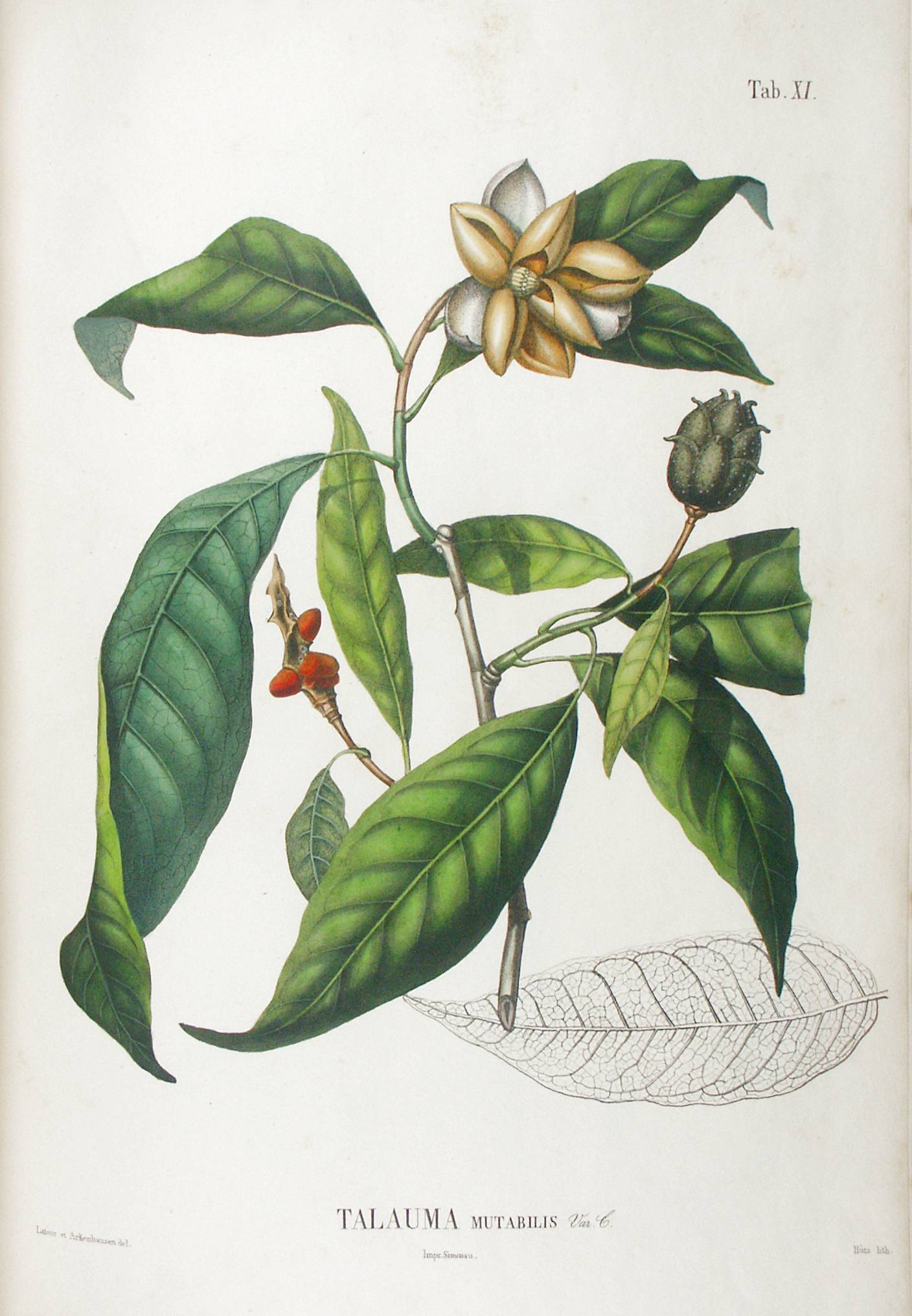 Lithographed, hand-coloured image of Talauma mutabilis var. acuminata Blume. Plate XI in C.L. Blume, Flora Javae, pars 19-20 Magnoliaceae (1829).